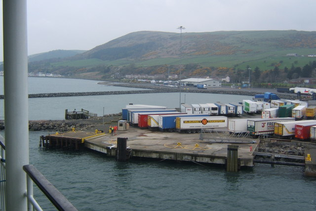 About to dock at Cairnryan Looking north along the eastern shore of Loch Ryan.